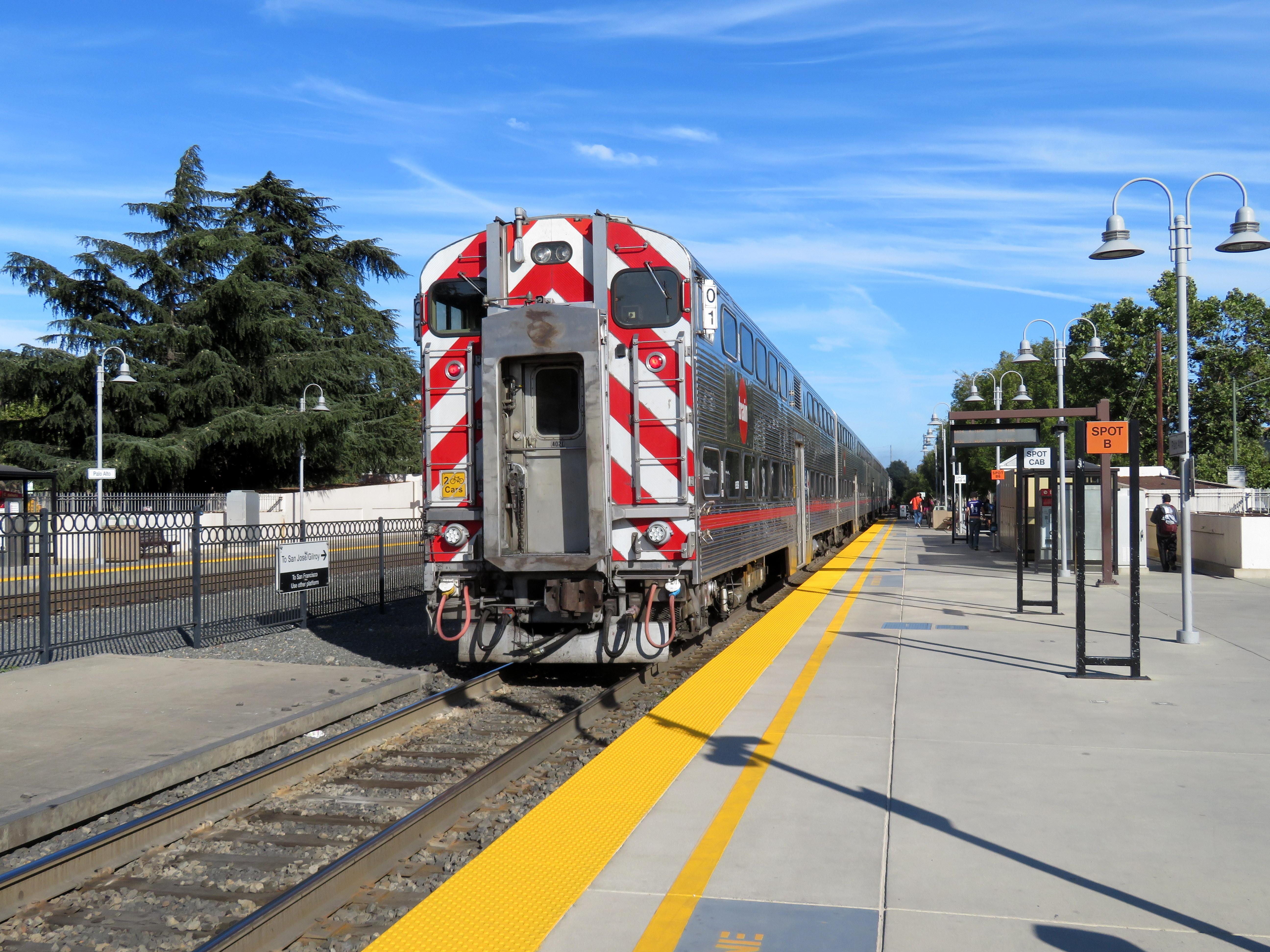 Southbound train leaving Palo Alto station in July 2018